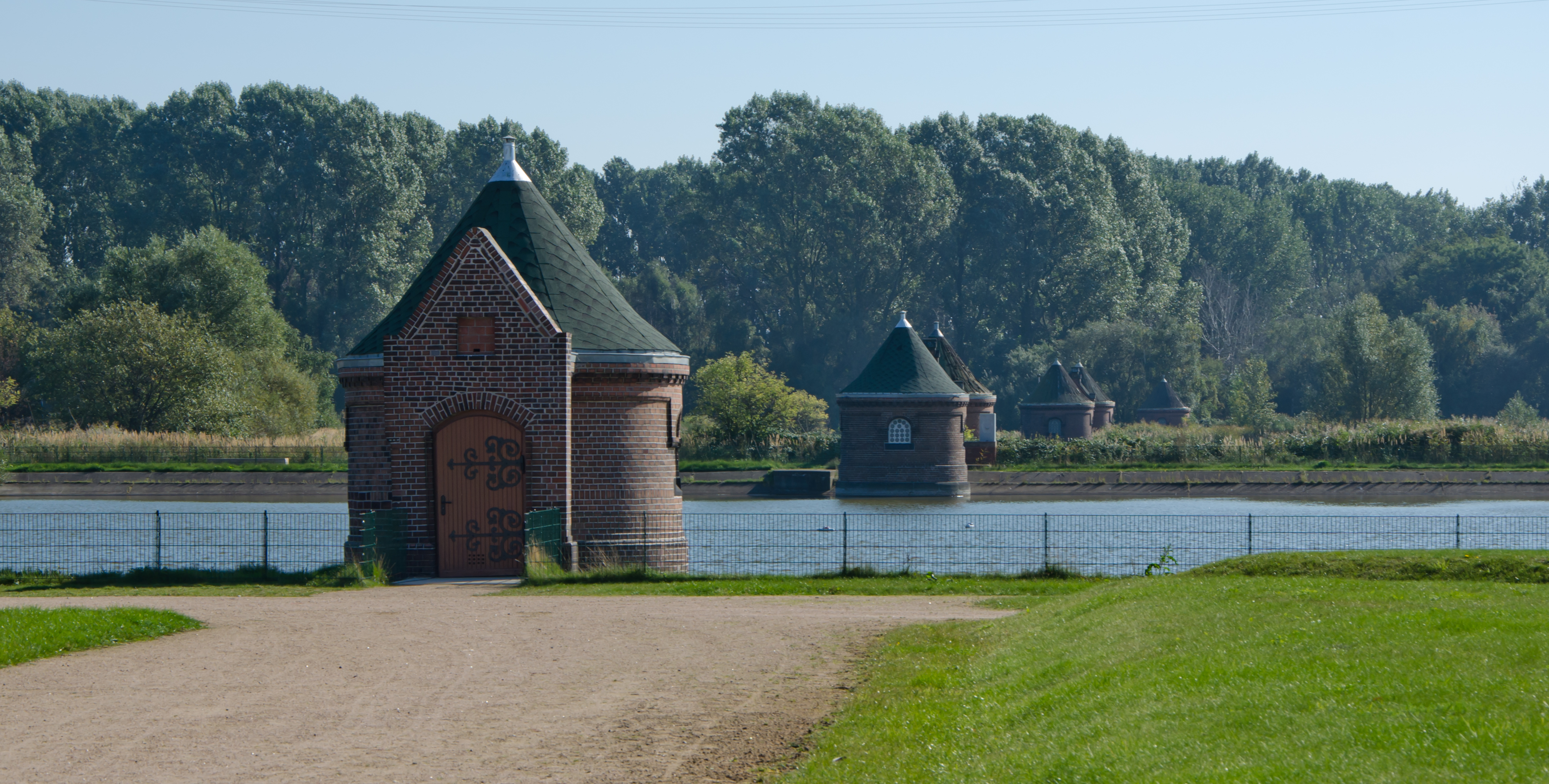 Hamburg-Rothenburgsort Kaltehofe Schieberhäuschen This is a photograph of an architectural monument.